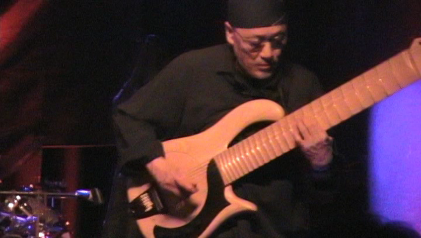 Hideki Ishima playing Sitarla, Flower Travellin' Band at the Knitting Factory, Brooklyn, New York City, 2008